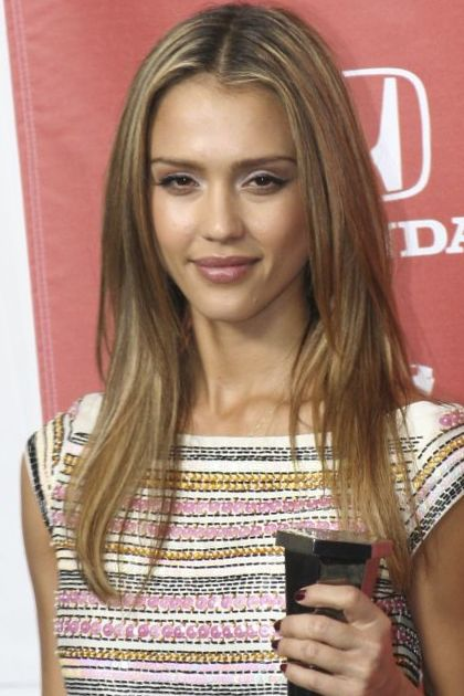 American actress Jessica Alba. Taken at the 2007 Scream Awards.